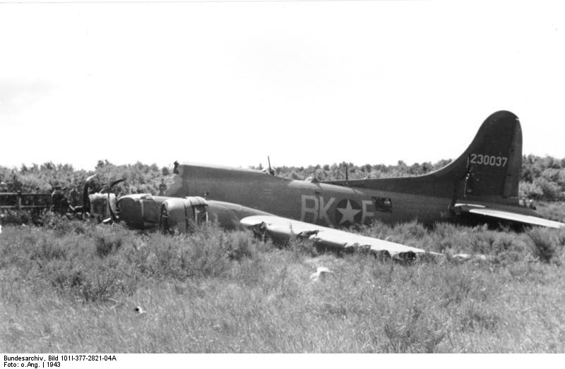 Information added by Wikimedia users.The wreck of the U.S. Army Air Force Boeing B-17F-85-BO Flying Fortress, s/n 42-30037, squadron code "BK-F". This aircraft was assigned to the 546th Bombardment Squadron, 384th Bombardment Group, 8th Air Force, based at Grafton Underwood, Northamptonshire (UK). It was shot down on 26 June 1943 on a mission to Villacoublay, France. Pieces of this aircraft were displayed in a museum estabilshed at Paris-Nanterre by the occupying German forces. The 384th BG flew their first combat mission as a group on 22 June 1943, bombing automobile parts warehouses in Antwerpen, Belguim. After the sixth mission the group had lost thirty-five of its original thirty-six aircraft.[1]